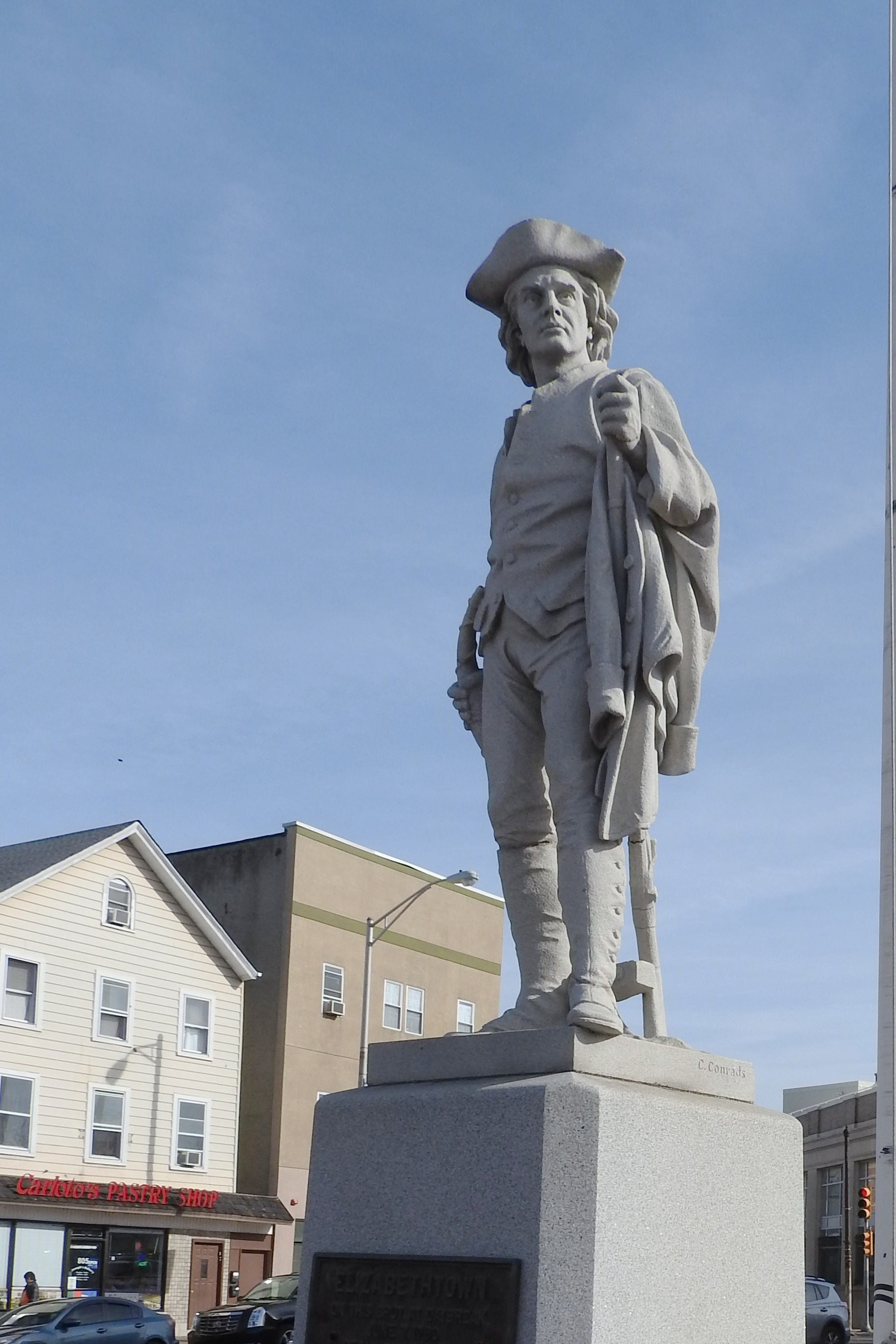 Minuteman statue Union Square, Elizabeth